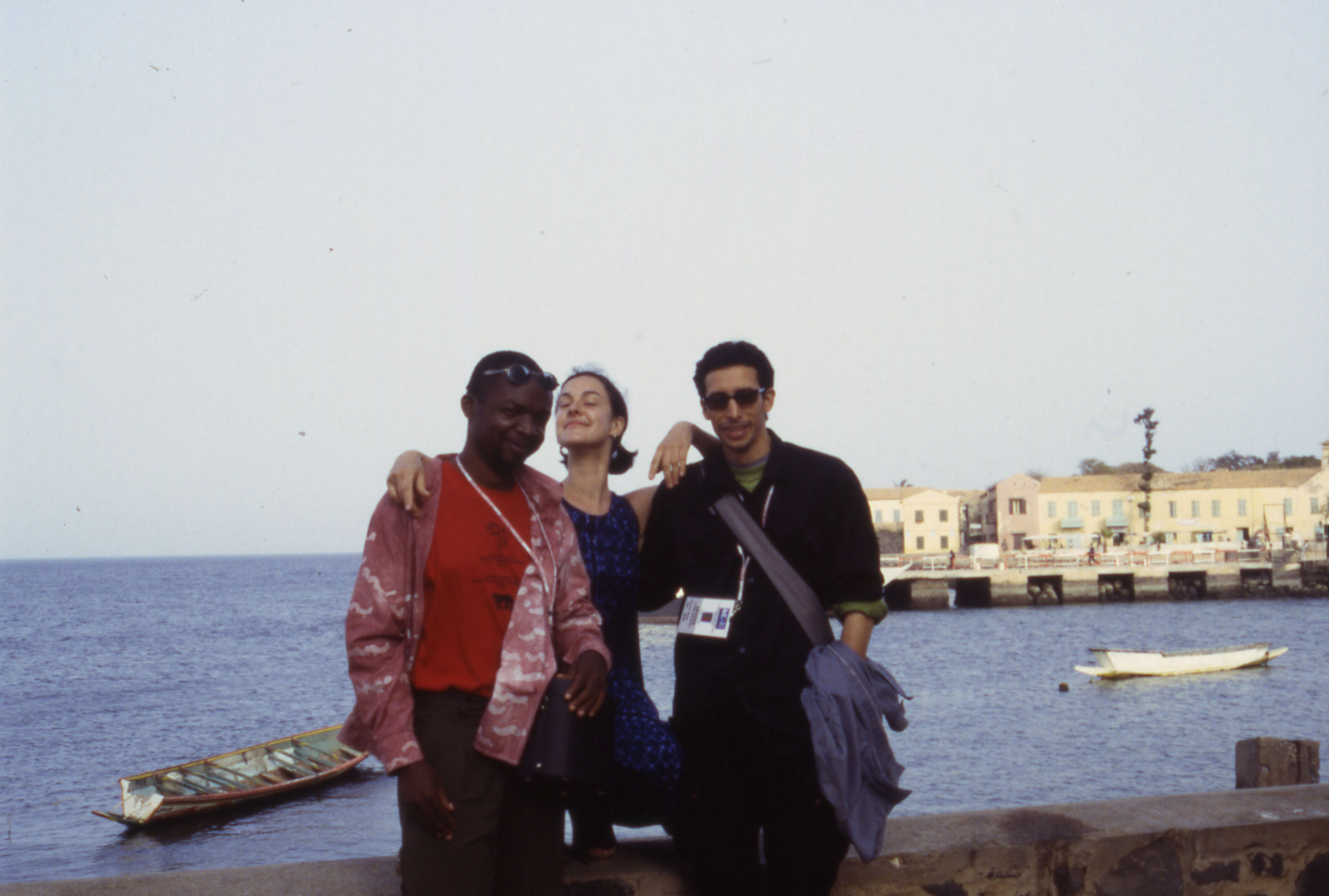 Dakar Biennale 2000. Goddy Leye, Sandrine Dole and Mounir Fatmi. Photo by Iolanda Pensa.